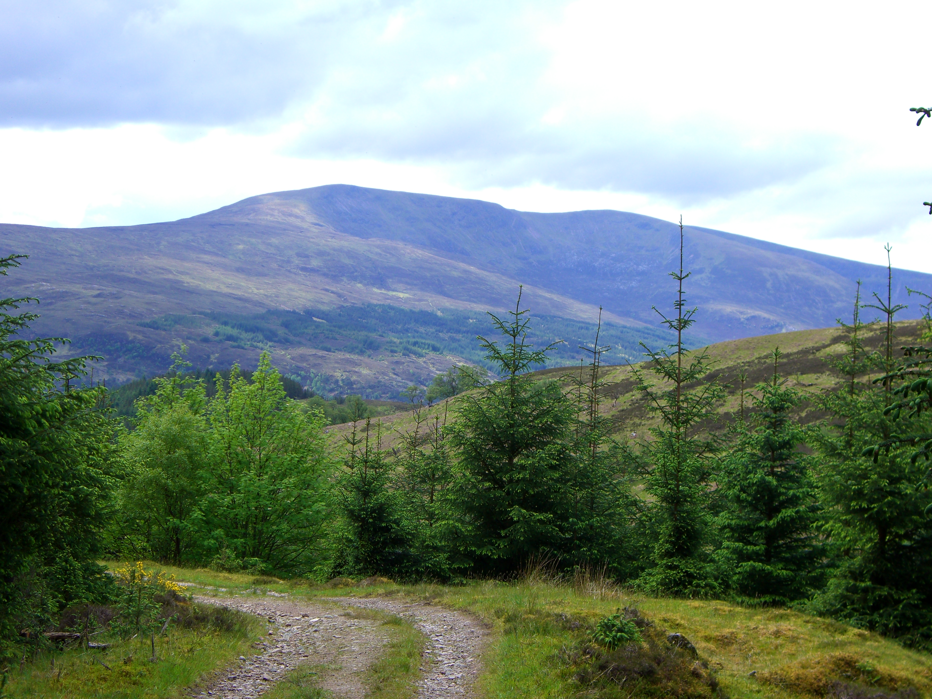 The Scottish hill Beinn Bhan in the Lochaber region. It is seen here from the woodland on the north side of Loch Arkaig.